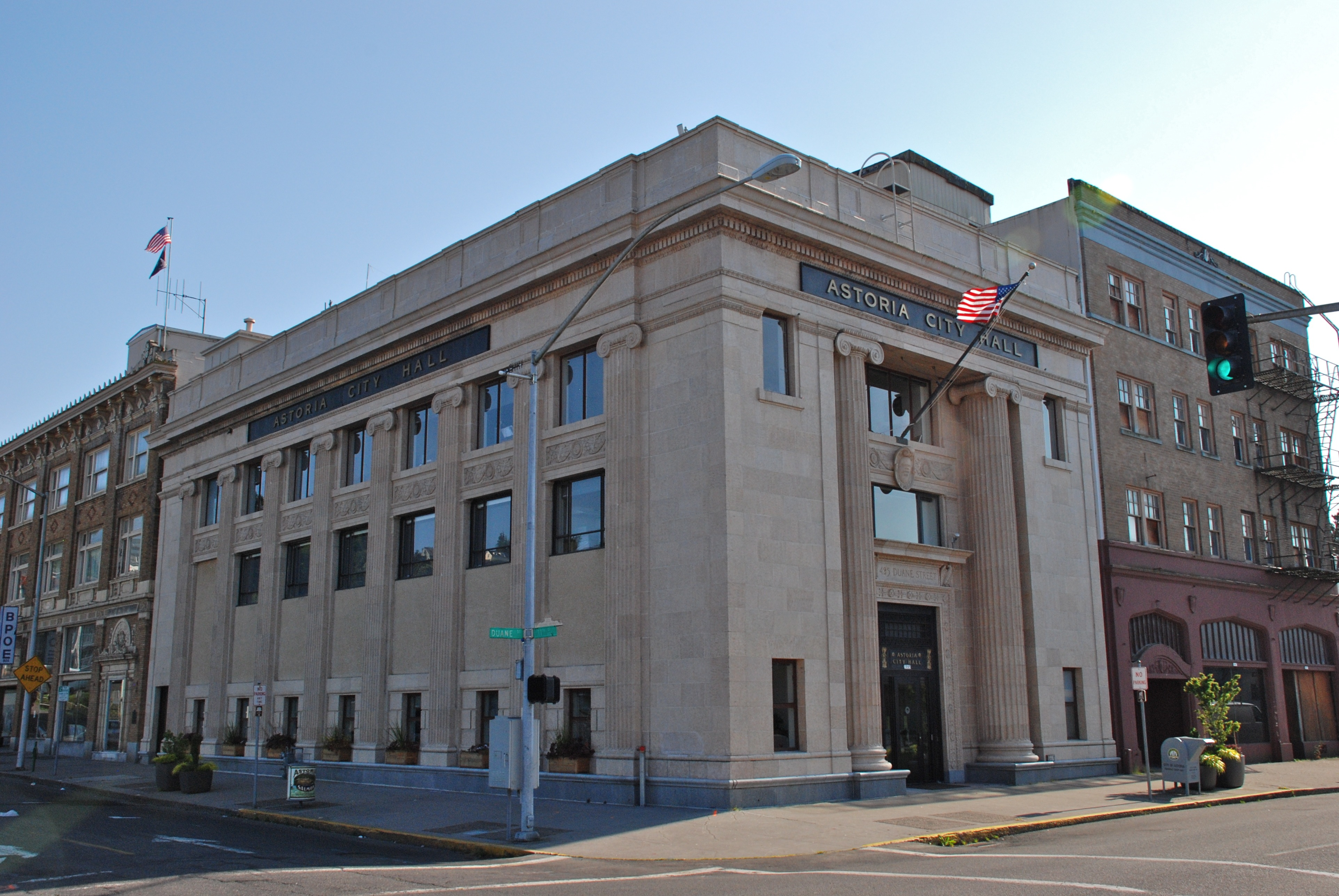 Astoria City Hall (new), in Astoria, Oregon. Built in 1923 as the Astoria Savings Bank, this building became the city hall in 1939, replacing an older building.